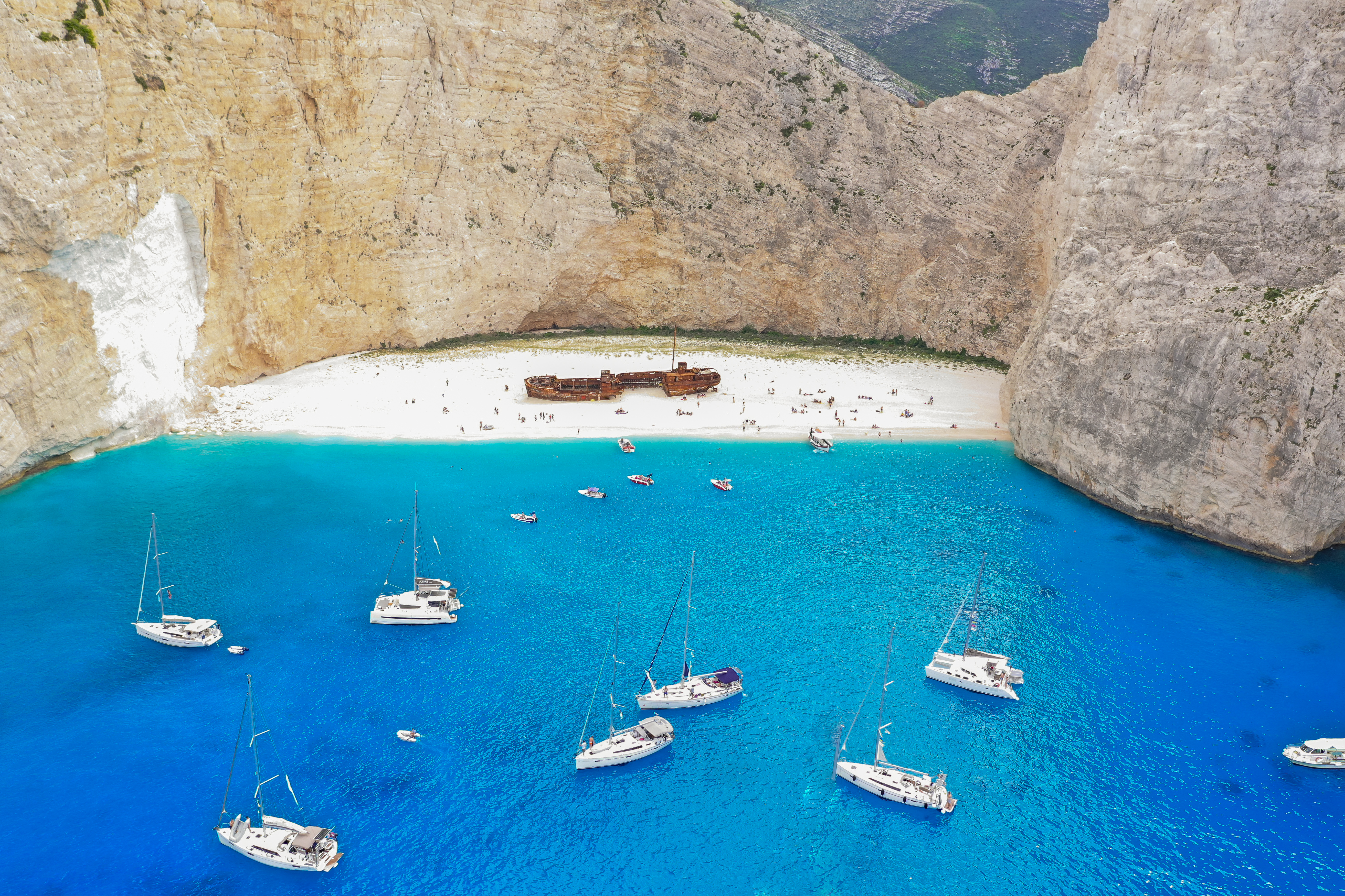 Navagio "Shipwreck" Beach aerial